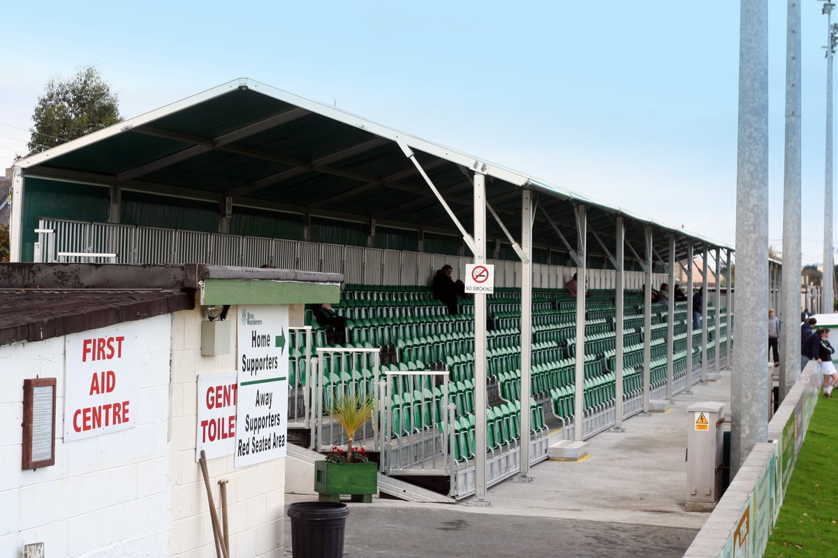 Taken by me at a U21 game in Bray in 2006. Albert White